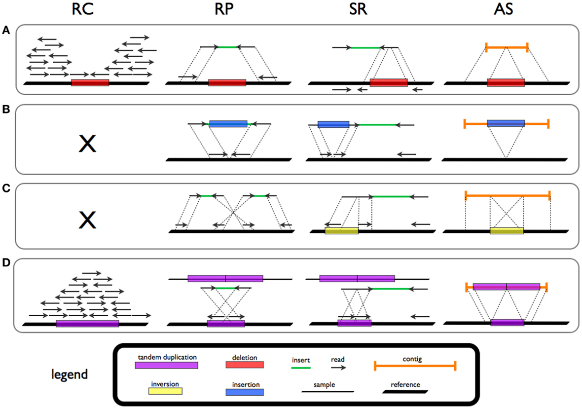 Signatures and patterns of SVs for deletion (A), novel sequence insertion (B), inversion (C), and tandem duplication (D) in read count (RC), read-pair (RP), split-read (SR), and de novo assembly (AS) methods. 中文（中国大陆）: 删除（A）、新序列插入（B）、倒置（C）、串联重复（D）等类型的结构变异在阅读计数（RC）、配对阅读（RP）、分割阅读（SR）、从头组装（AS）等检测方式中的特征和模式。